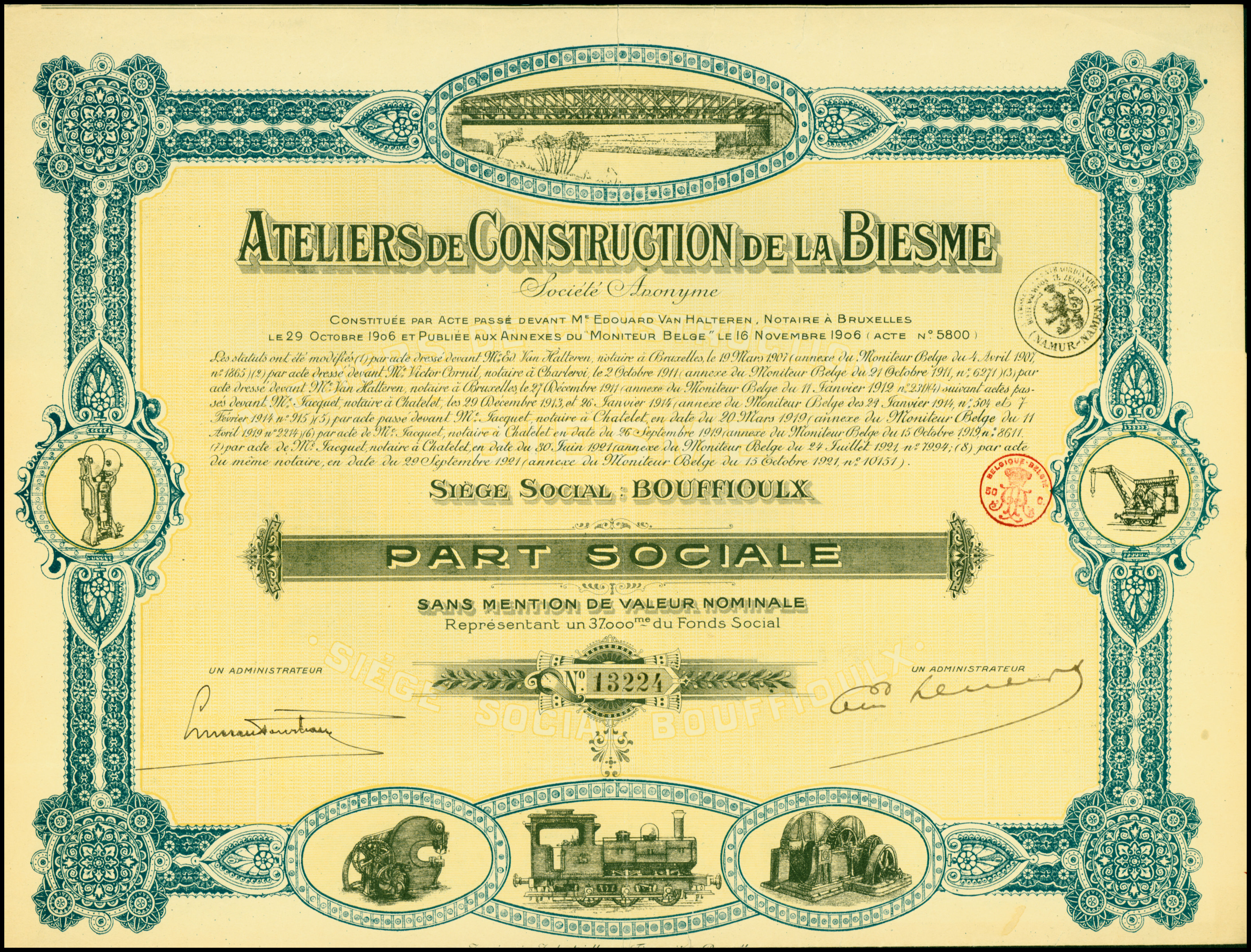 Part Sociale of the Ateliers de Construction de la Biesme, issued 15. October 1921